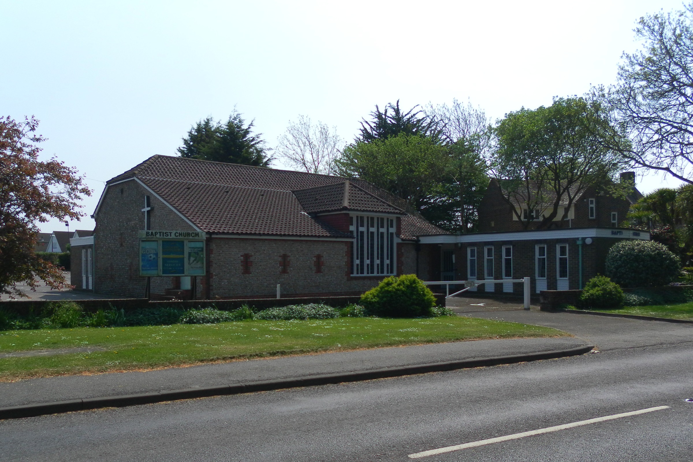 Angmering Baptist Church, Angmering, Arun District, West Sussex, England. Converted from a barn in the 1970s.